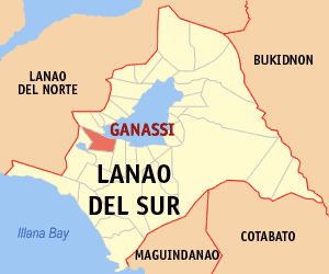 Map of the Lanao del Sur showing the location of Ganassi